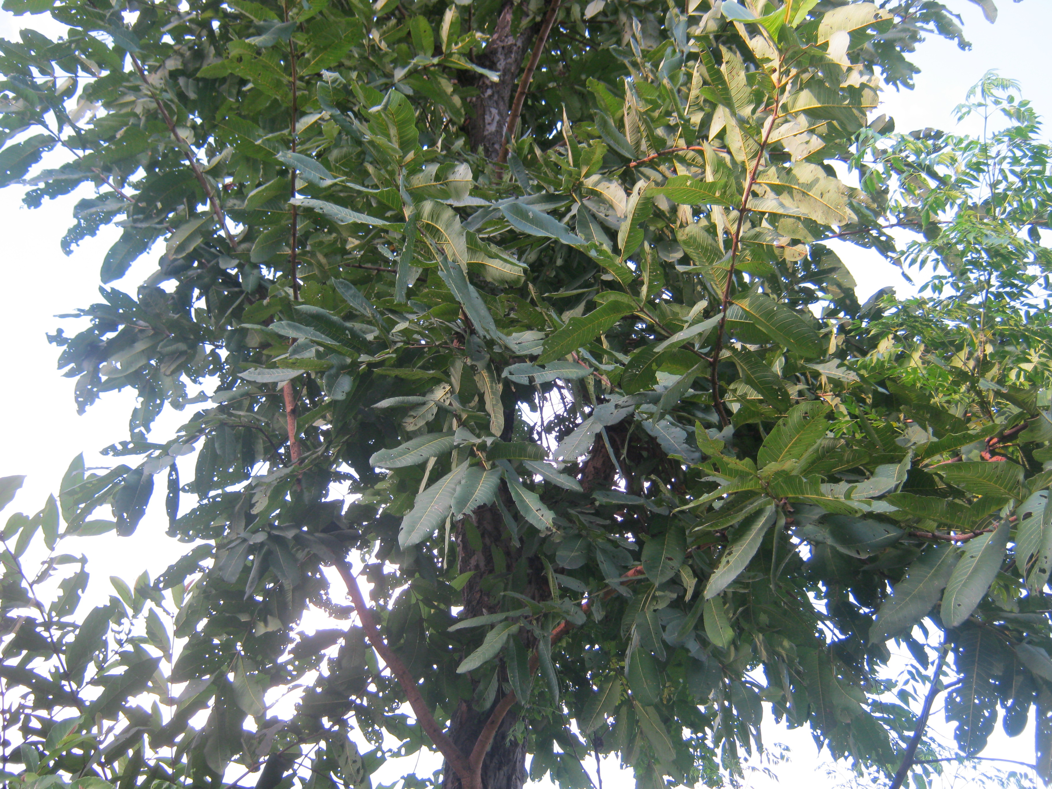 Terminalia elliptica found in Panchkhal Valley, Nepal.